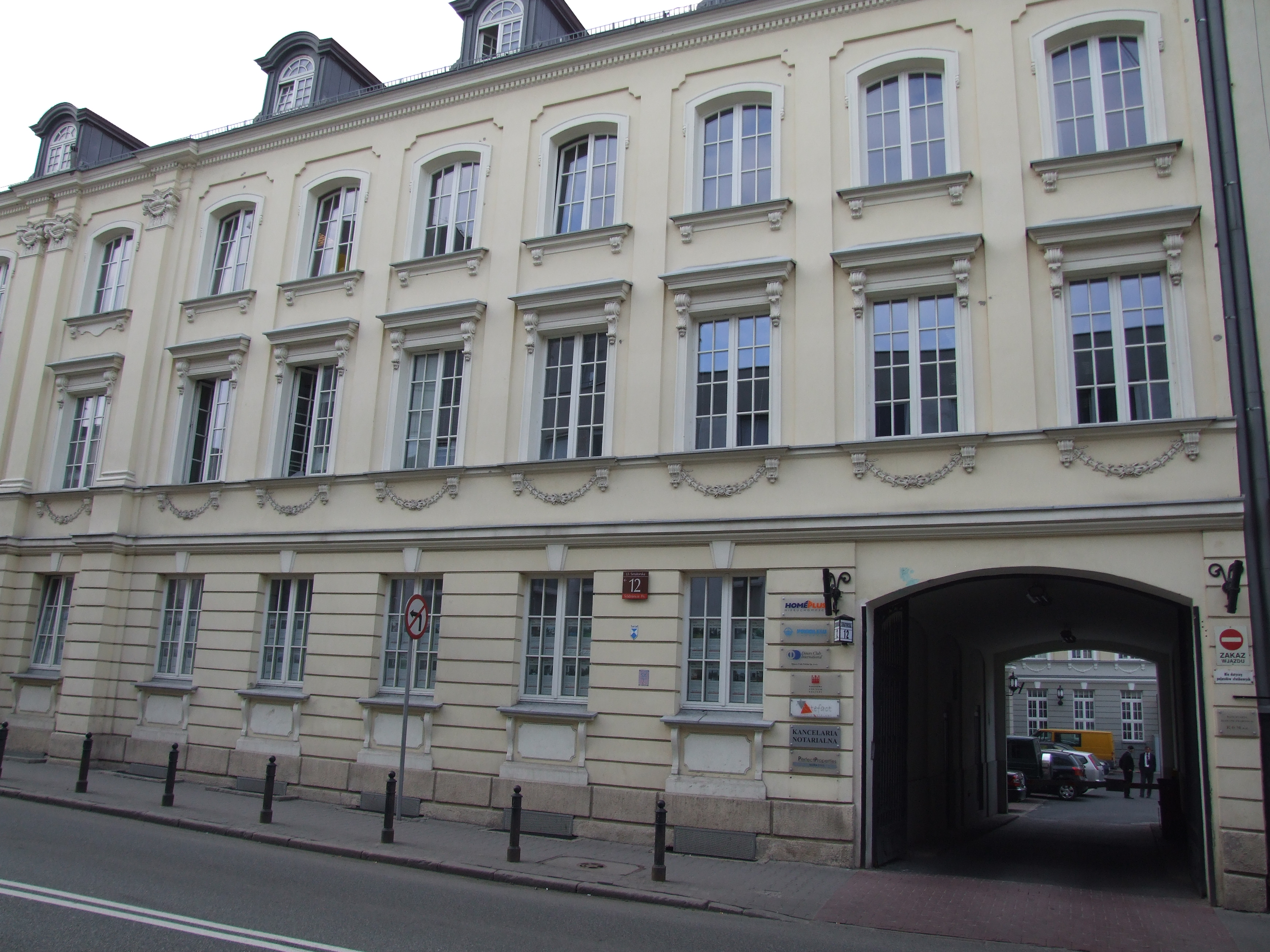 Dembinski's palace on 12, Senatorska st. in Warsaw